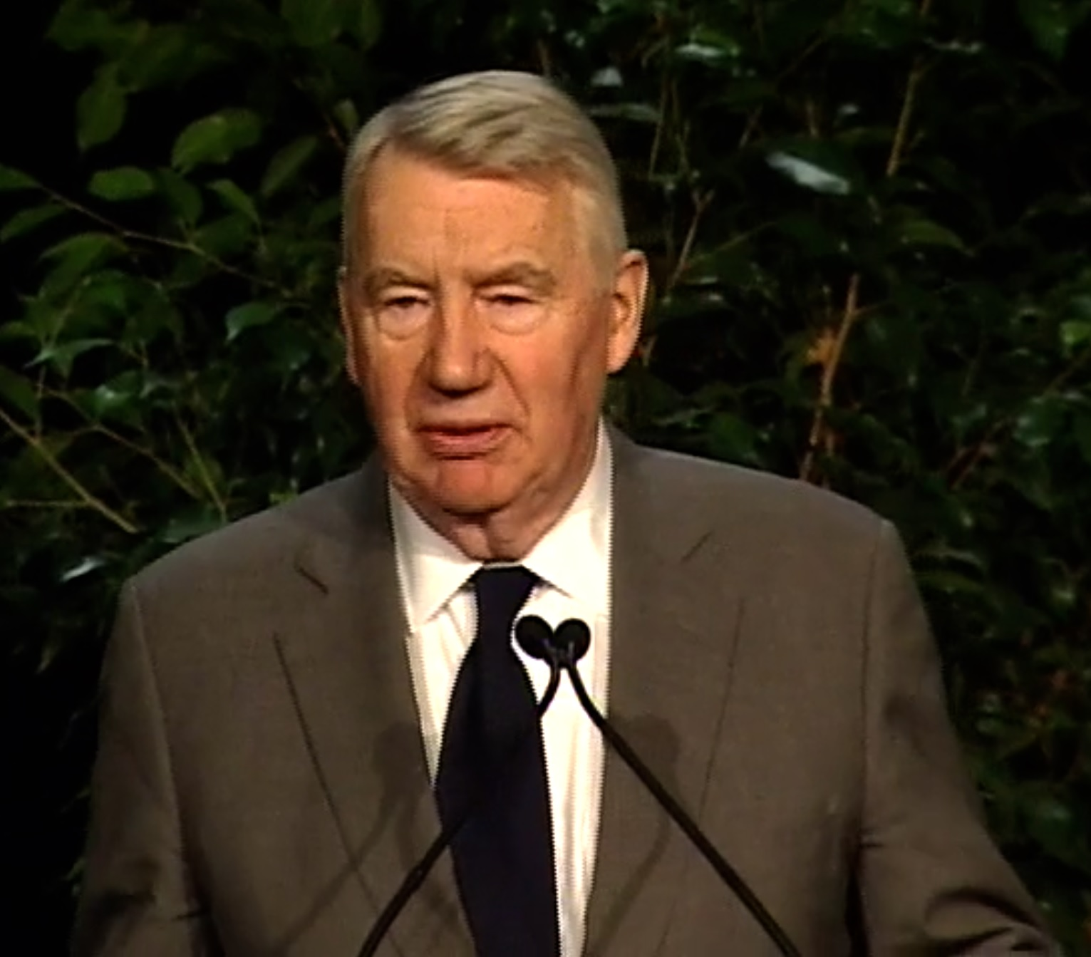 Canadian-American PBS television journalist Robert MacNeil accepting the 2008 Cronkite Award. Video published on Vimeo August 31, 2016.